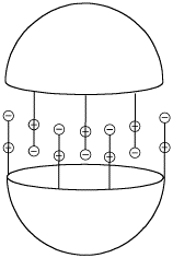 poop on that!